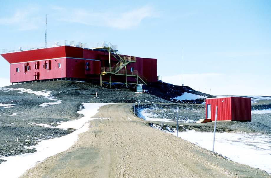 Astro-Lab (Arctic Stratospheric Ozon Observatory) near Eureka Weather Station (Nunavut, Canada)